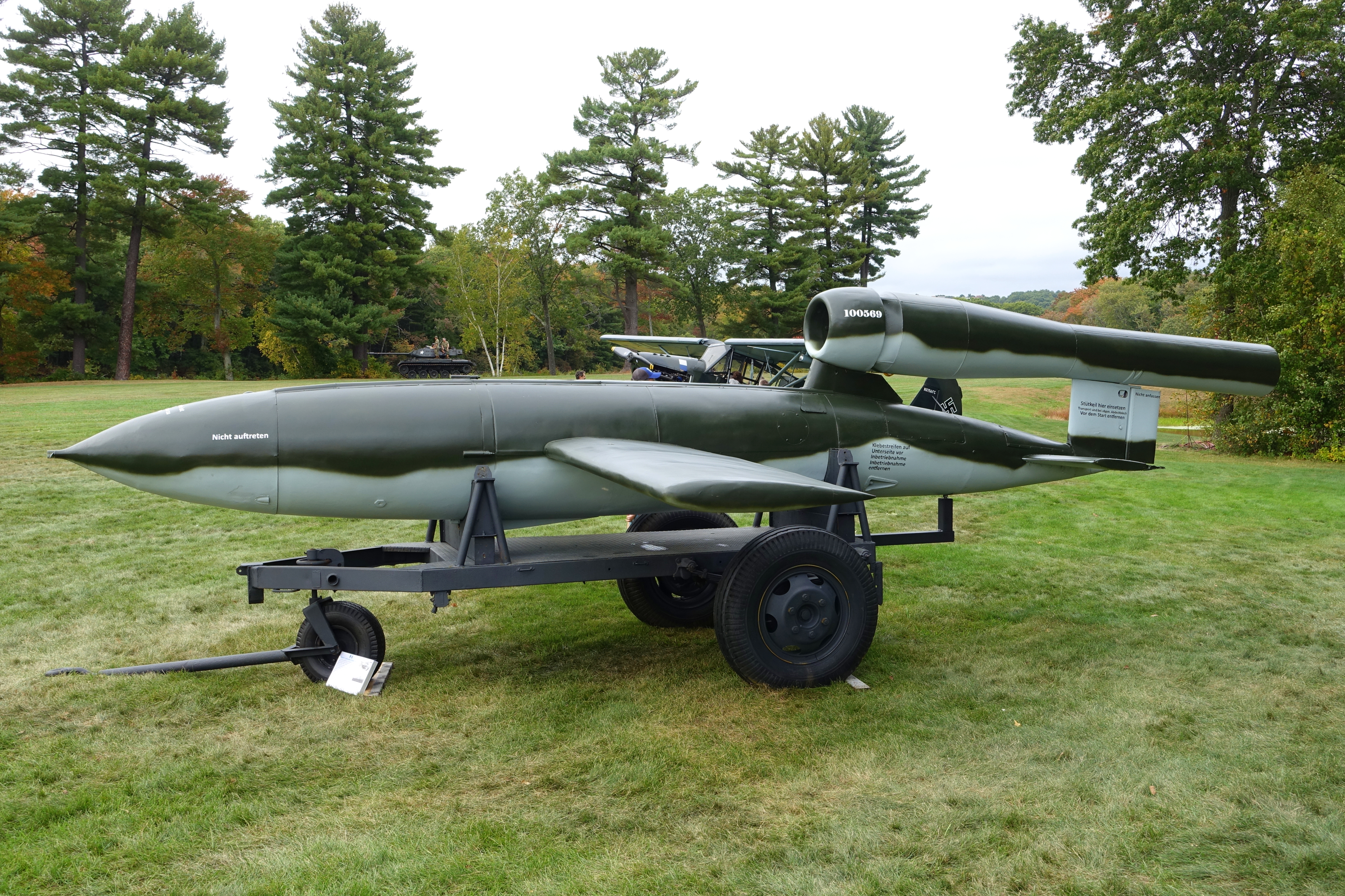 Battle for the Airfield, 2017 - Collings Foundation - Stow / Hudson, Massachusetts, USA.